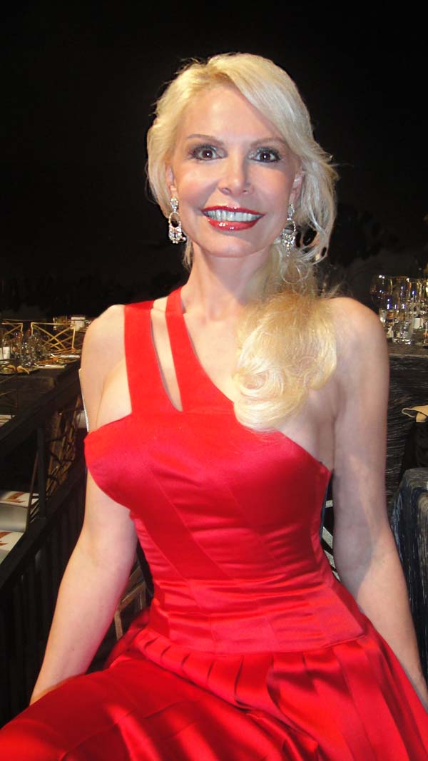 Agnes-Nicole Winter, model, starred in docusoap Swedish Hollywood Wifes and actress in the feature film The Gold & The Beautiful.